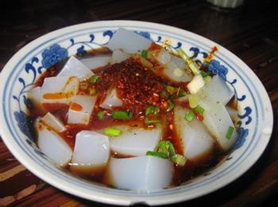 西藏凉粉, Tibetan Street food, usually found in Lhasa, Some major City, can also be found in Area Tibetan people living in Nepal and India.